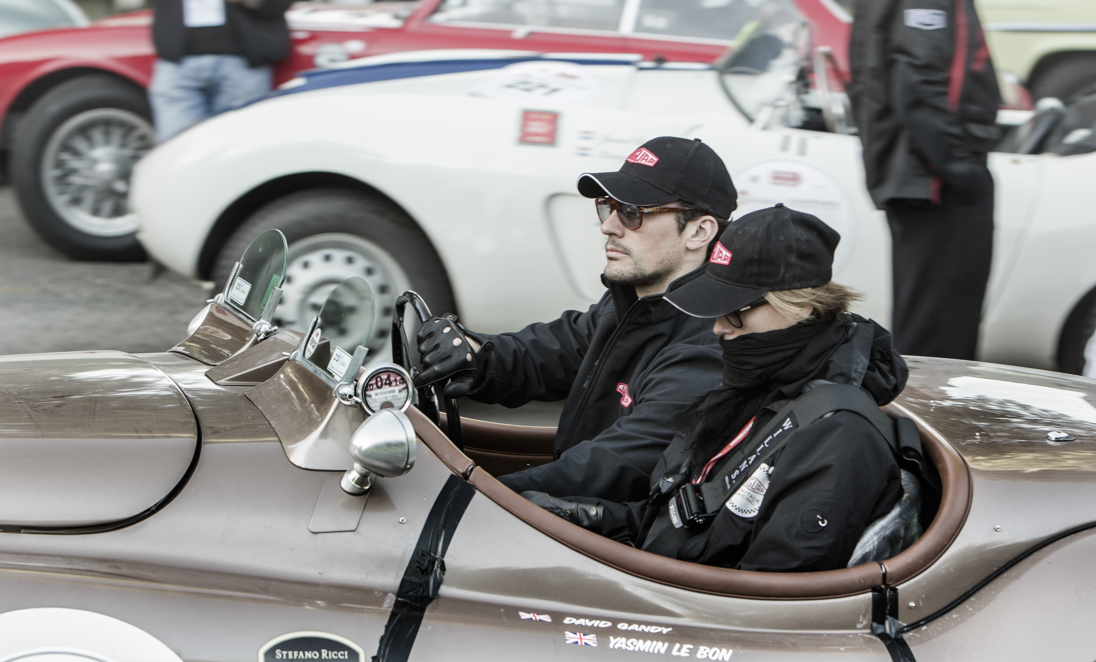 David Gandy and Yasmin LeBon - driving a vintage Jaguar during the 2013 Mille Miglia